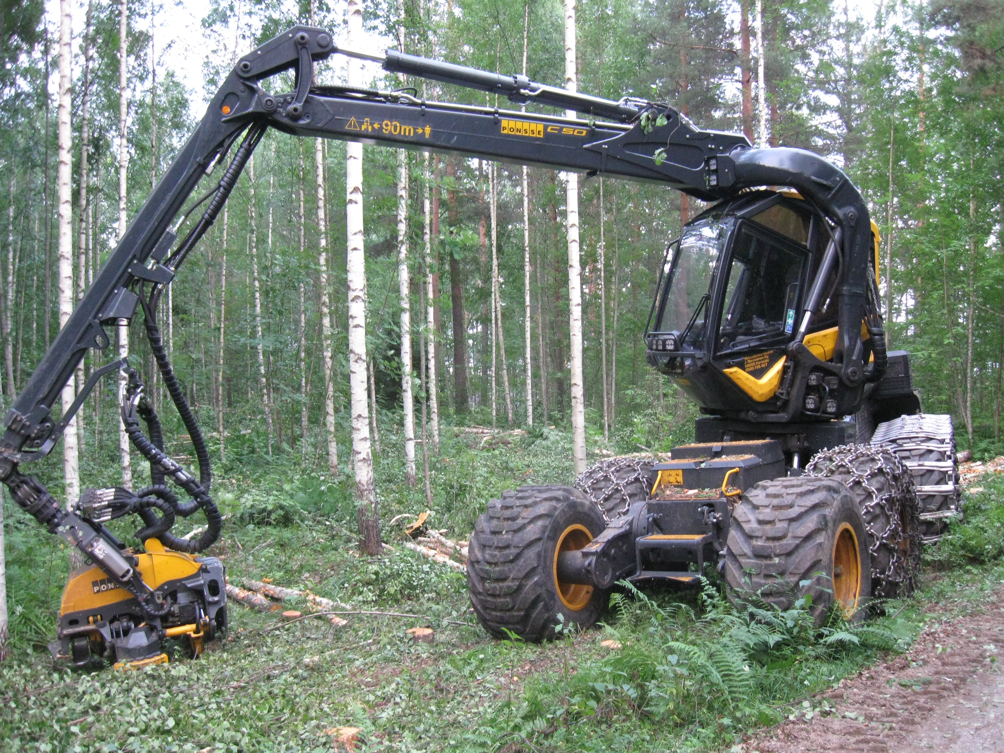 Ponsse King Scorpion forest harvester.